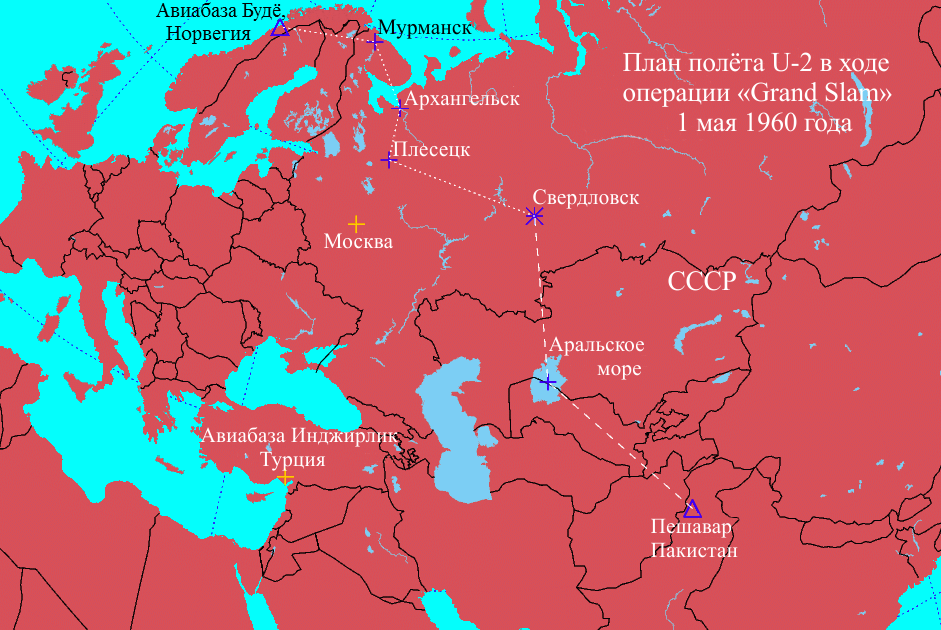 Francis Gary Powers' U-2 "GRAND SLAM" flight plan on 1. May 1960 according to "Text of Indictment on Spy Pilot Powers"